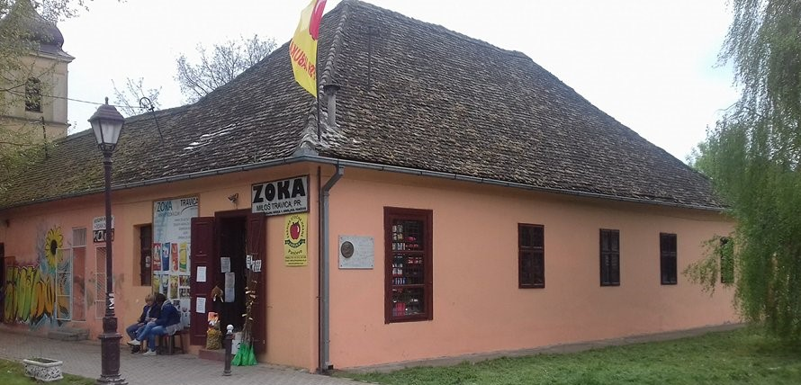 General look of military-border building in Omoljica, near Pančevo